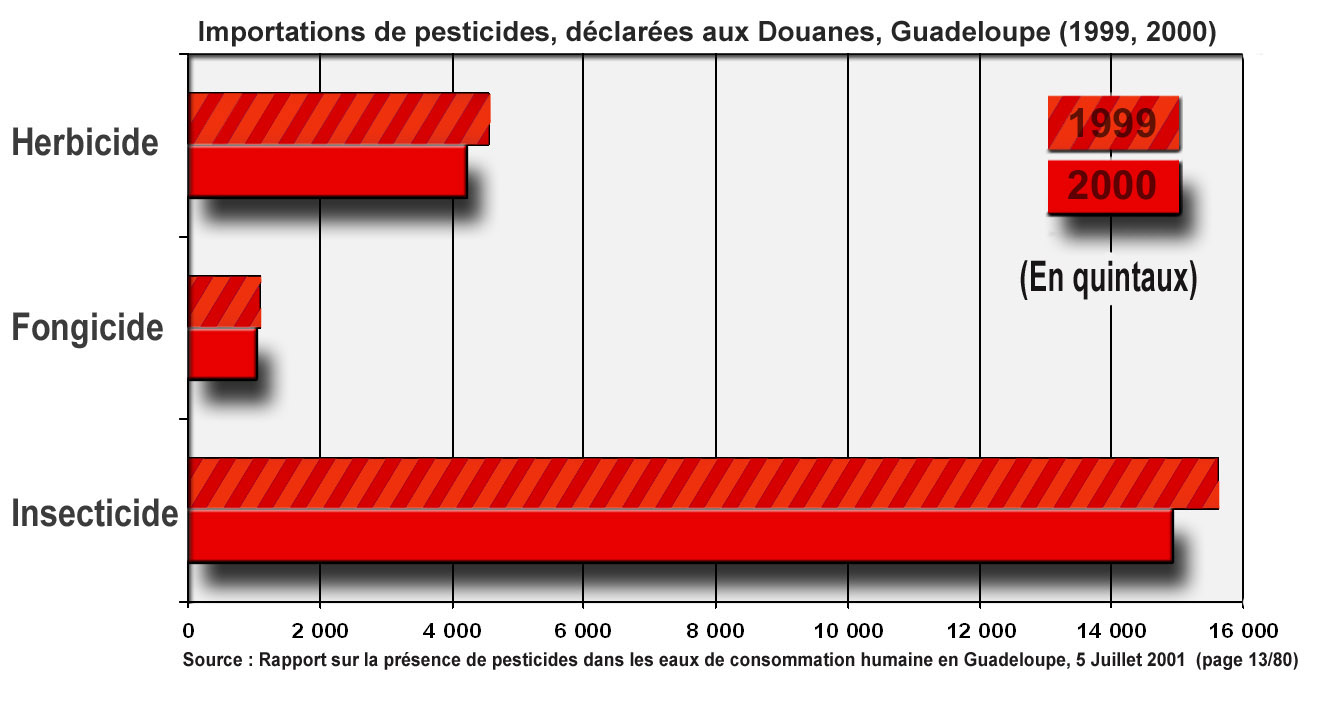 importation declared in customs of pesticides in Guadeloupe (inhibitors of growth excluded), according to the french Report made about the presence of pesticides in water of human consumption in Guadeloupe, ordered by the French government to Doctor Henri BONAN (General Inspection of the social affairs ; IGAS) and Jean-Louis PRECEDES (General Inspection of environment ; IGE) returned on July 5, 2001